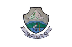 Flags of the city of Francisco Badaró, Minas Gerais, Brazil.